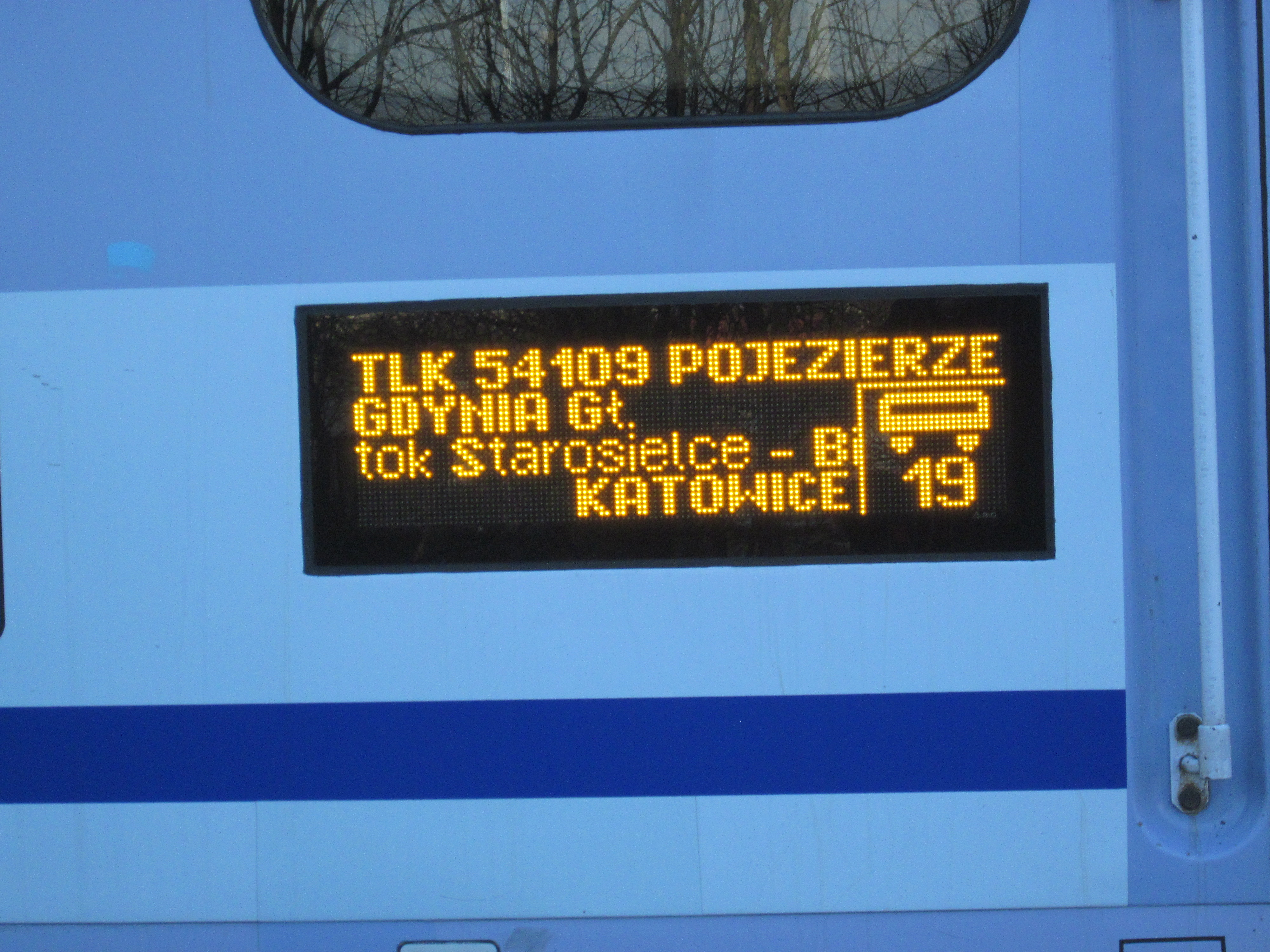 Signs of road trains to Katowice/from Gdynia Głowna